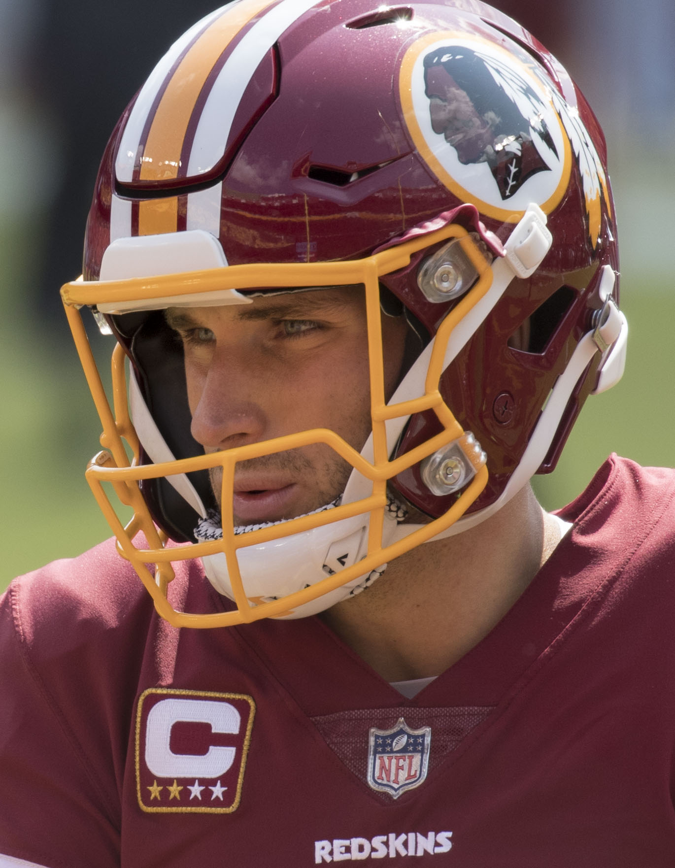 Quarterback Kirk Cousins of the Washington Redskins before a game against the Philadelphia Eagles at FedExField on September 10, 2017 in Landover, Maryland.